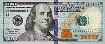 The new $100 note front